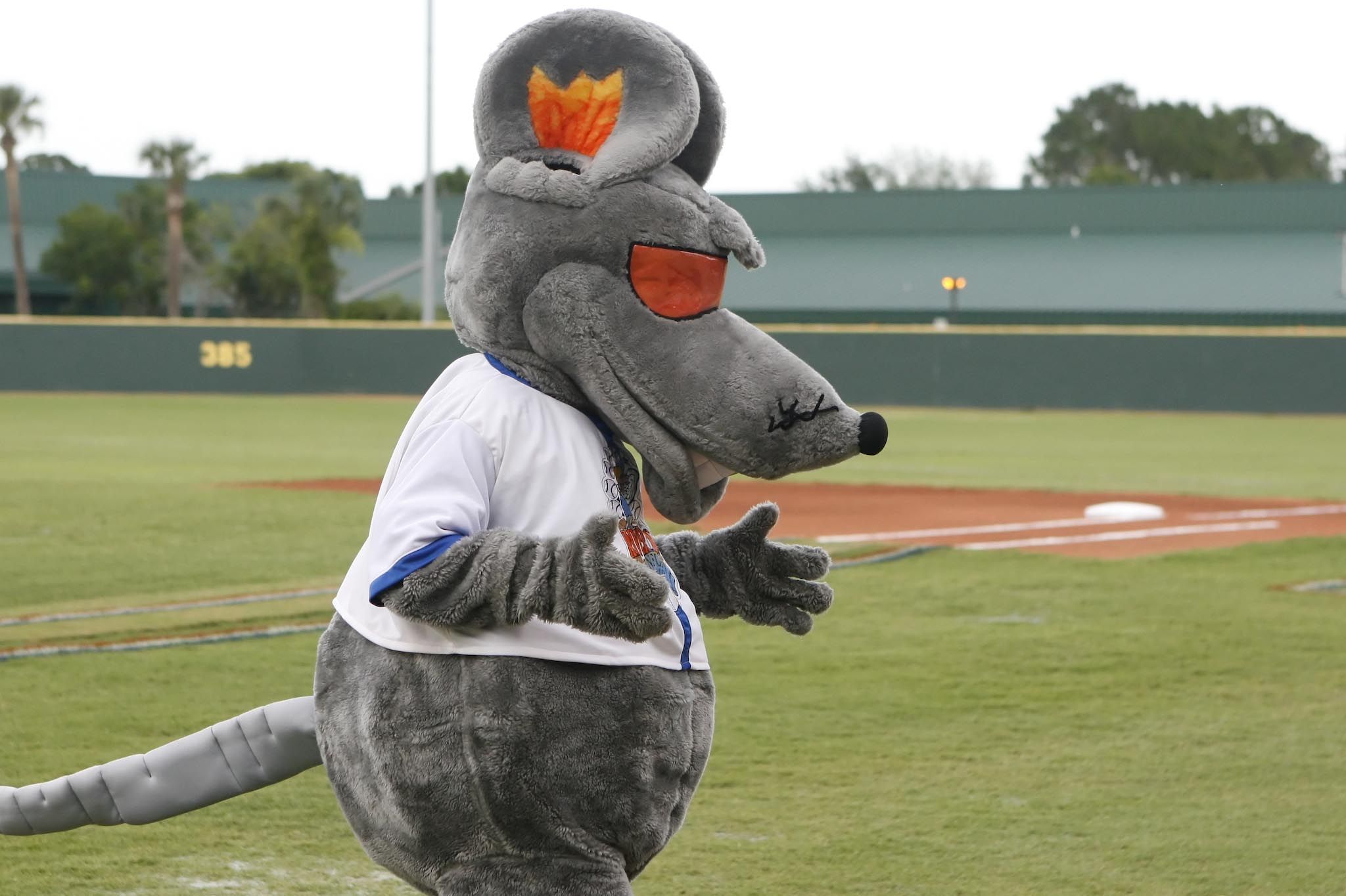 sanford mascot